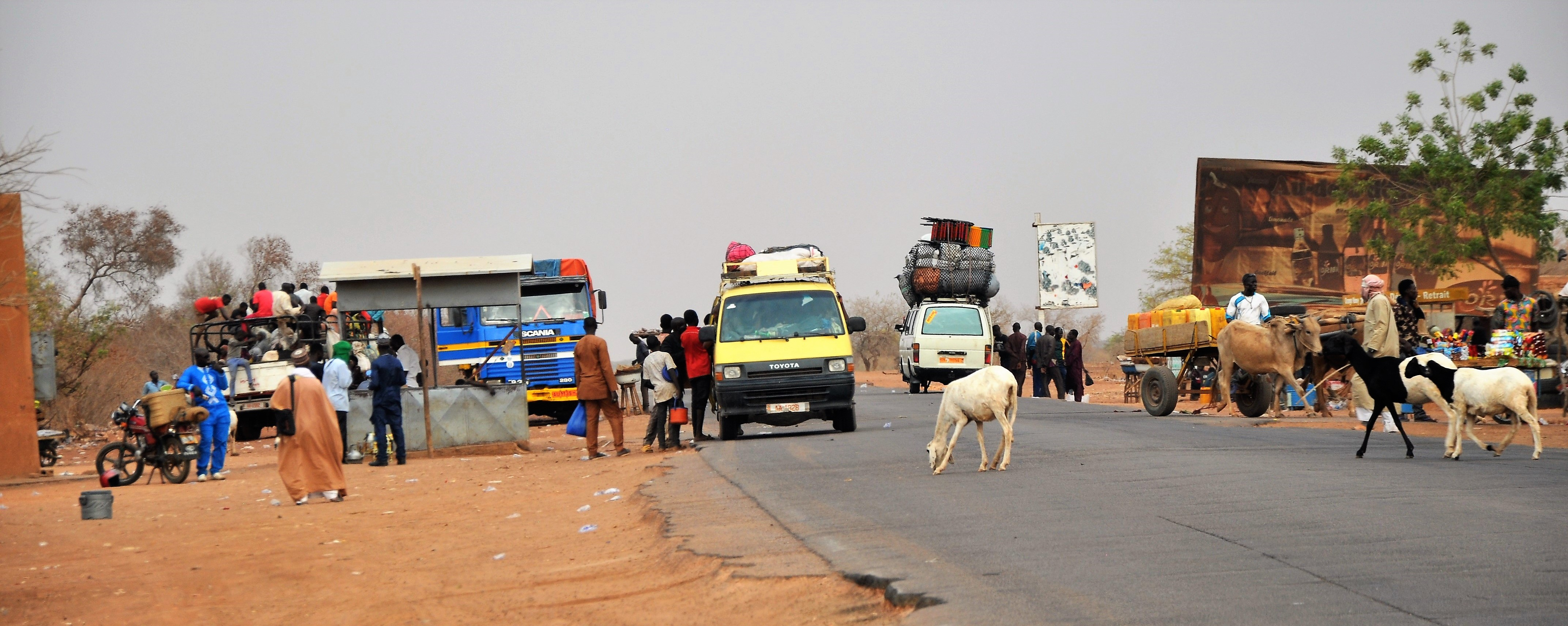 Checkpoint along Route Nationale No. 1 in Niger at the village of Kouré (Tillabéri Region, Kollo Department, Kouré Commune). Kouré is some 60 km southeast of the capital Niamey.